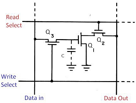 DRAM memory cell of Intel i1103 1103 chip. Was the first commercial DRAM